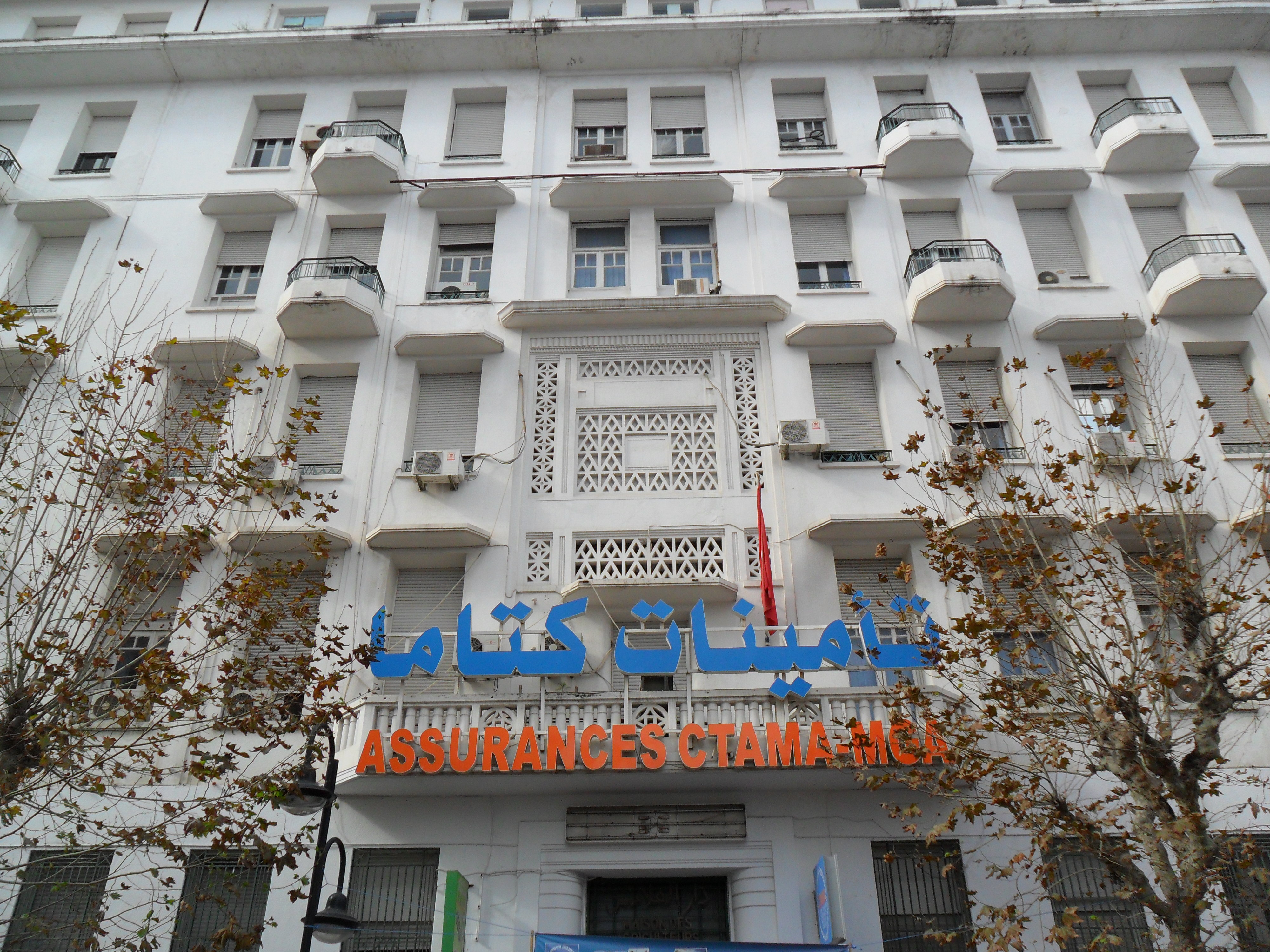 Headquarters of CTAMA